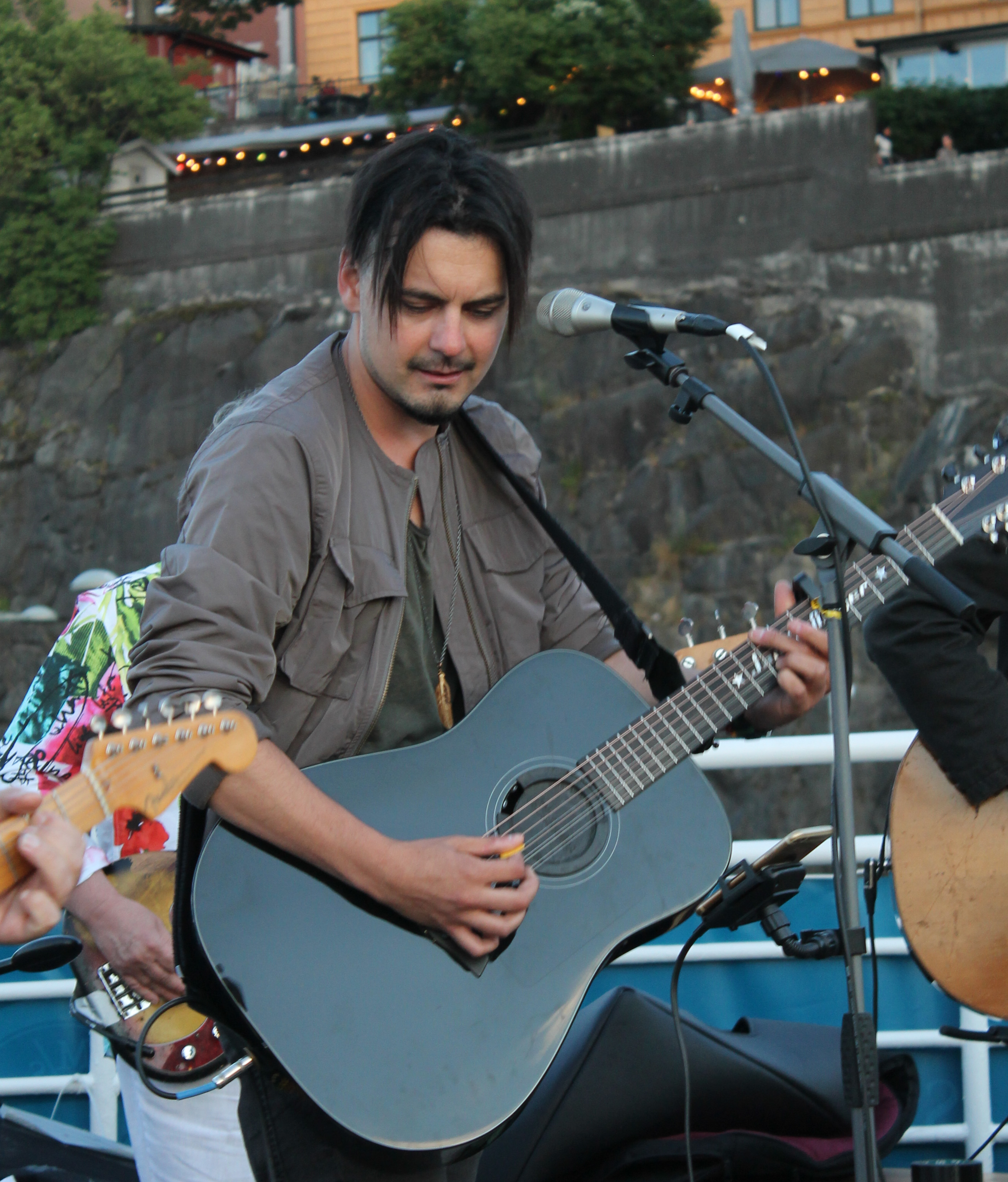 Jamie Meyer at Lasse Lindboms Akterdäck 2017